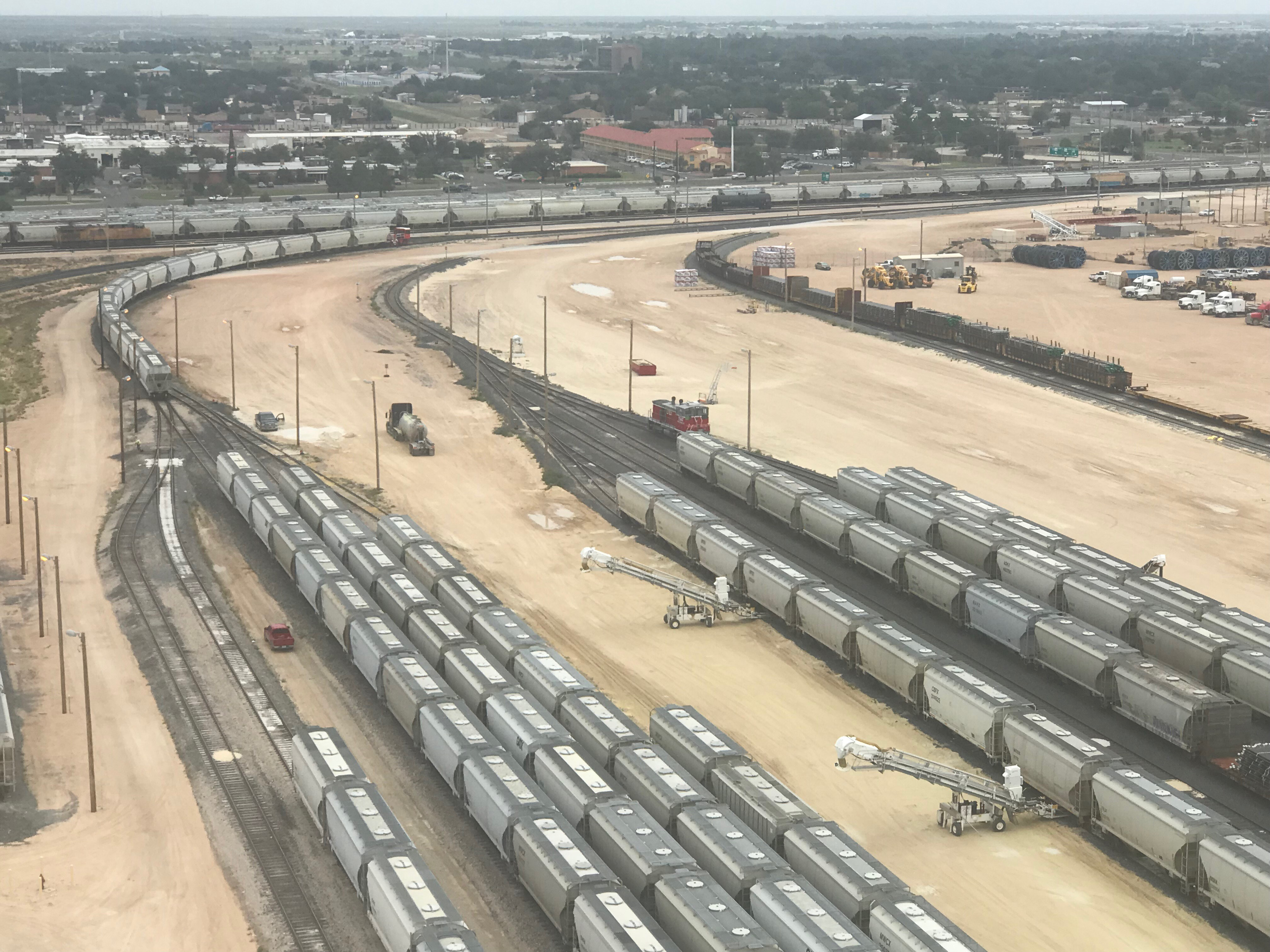 Odessa Transload